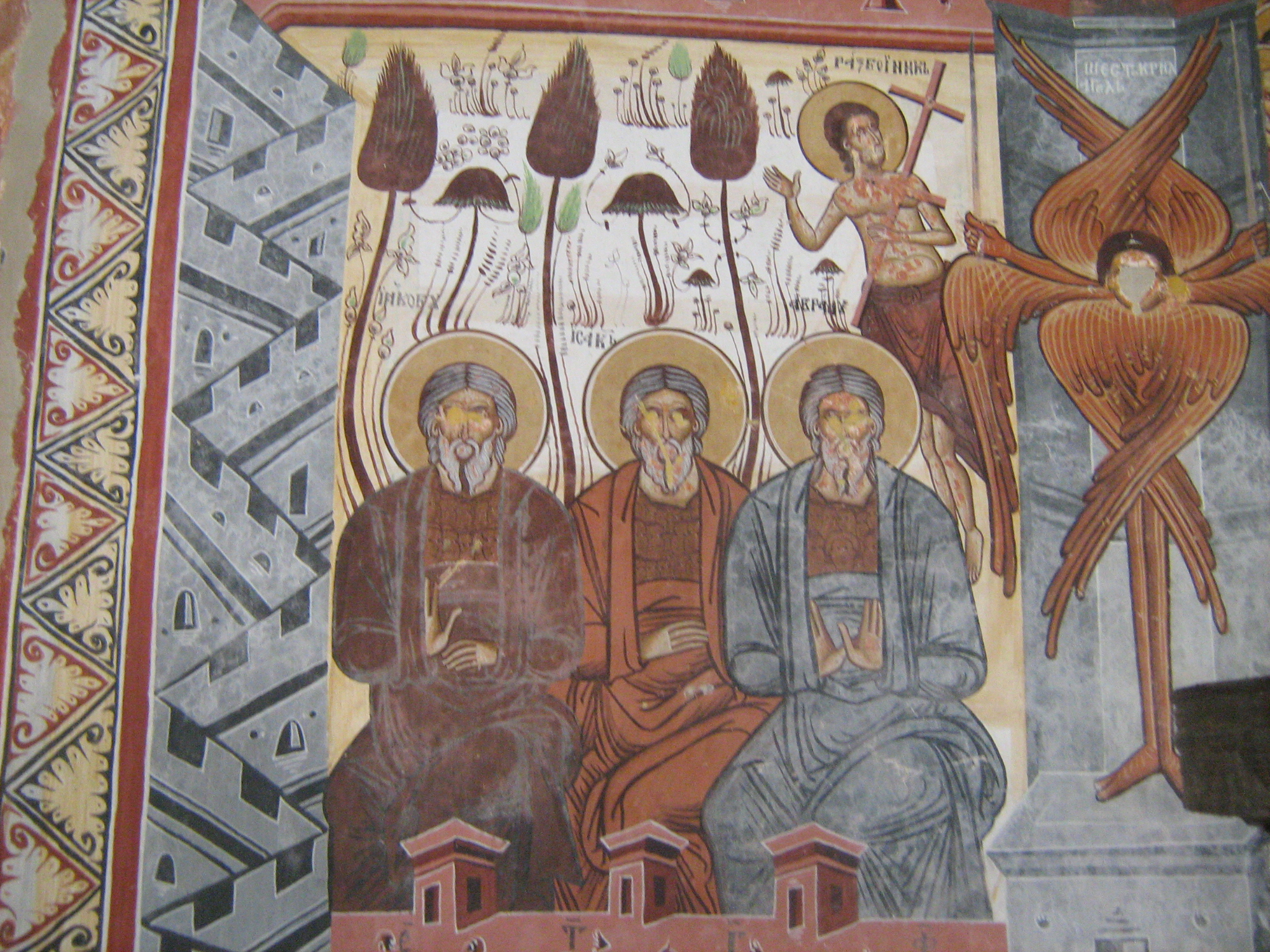 Fresco depicting Paradise guarded by a seraph, with the Bosom of Abraham and the Good Thief inside